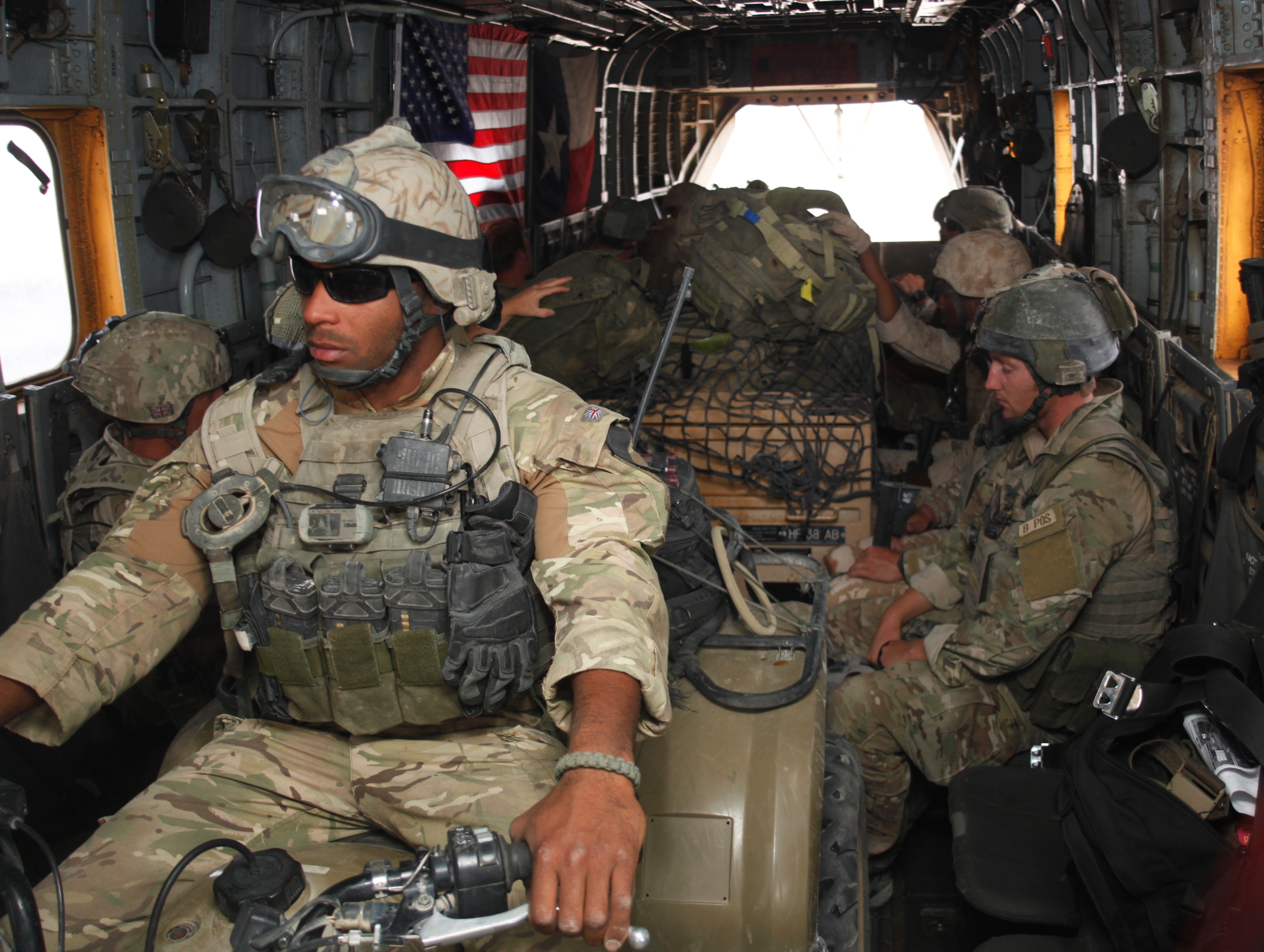 British Army soldiers with the 1st Battalion, The Parachute Regiment, wait inside the belly of a Marine Heavy Helicopter Squadron CH-53D Sea Stallion prior to takeoff during a troop extraction mission in support of operations, in southwestern Afghanistan, April 27. Coalition troops traveled to the Helmand River valley to interact with the local populace and counteract the insurgent presence there.